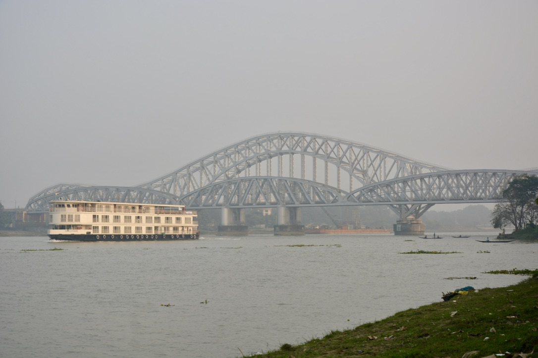 The luxury launch passing through Hooghly river with the new bridge, Sampreeti Bridge on the background.